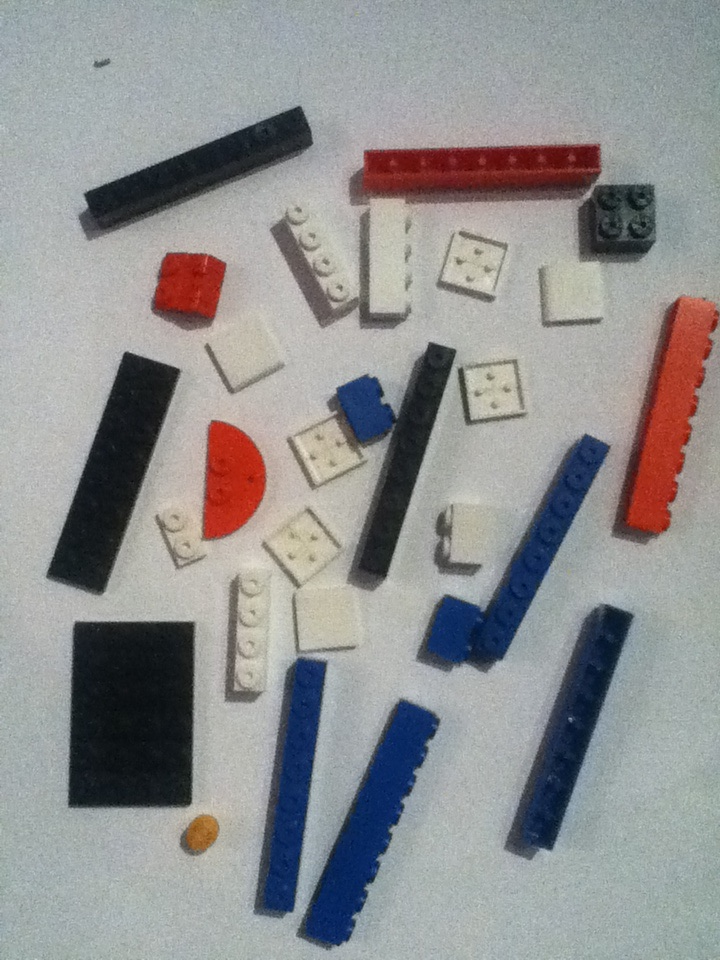 Very old TENTE blocks